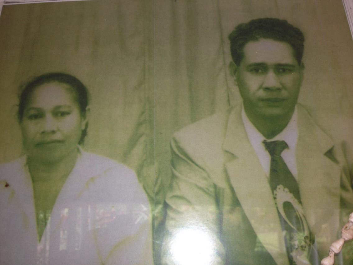 Matua of Falefa, Moeono Kolio and his wife, Aniva Auva'a